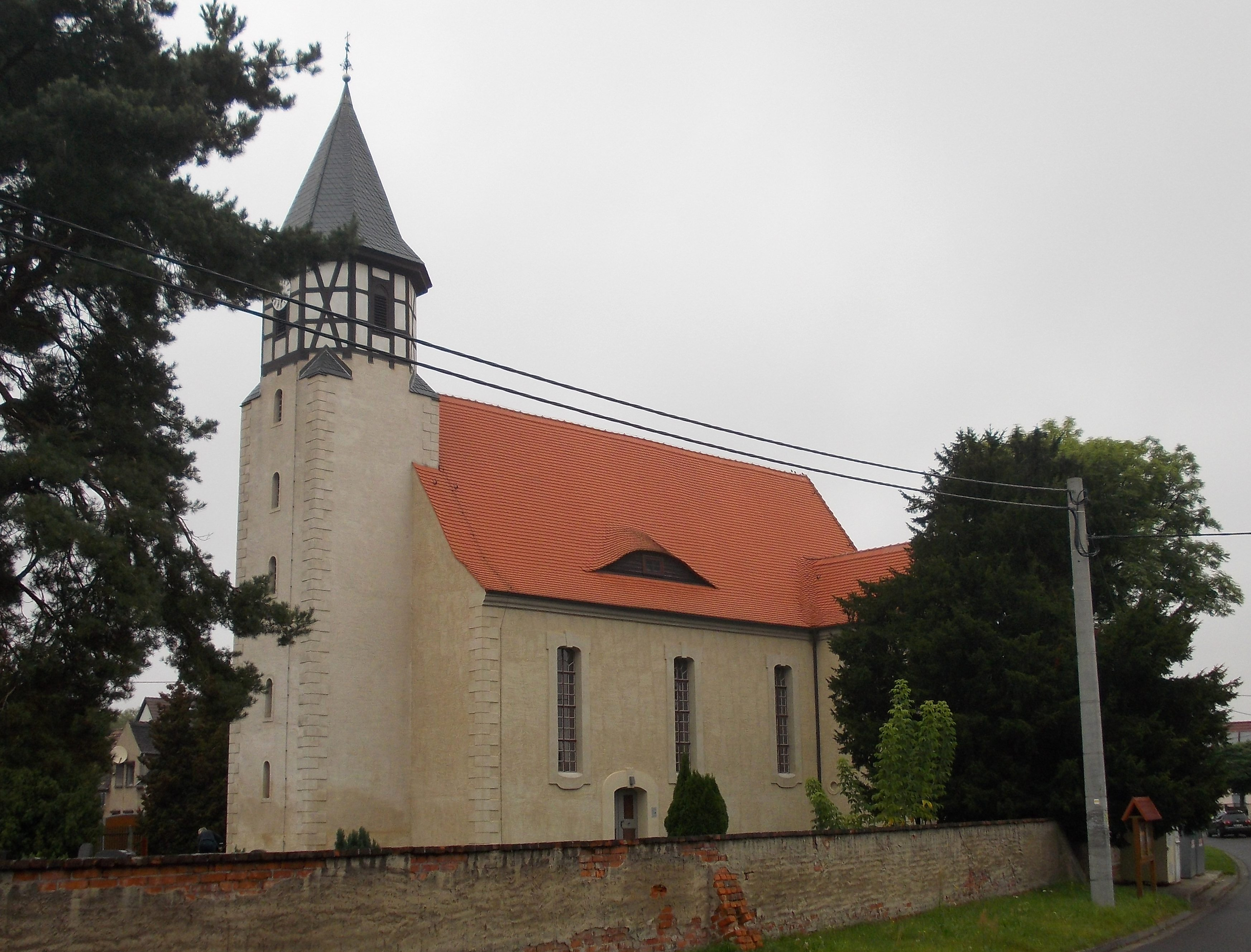 Tiefensee church (Bad Düben, Nordsachsen district, Saxony)